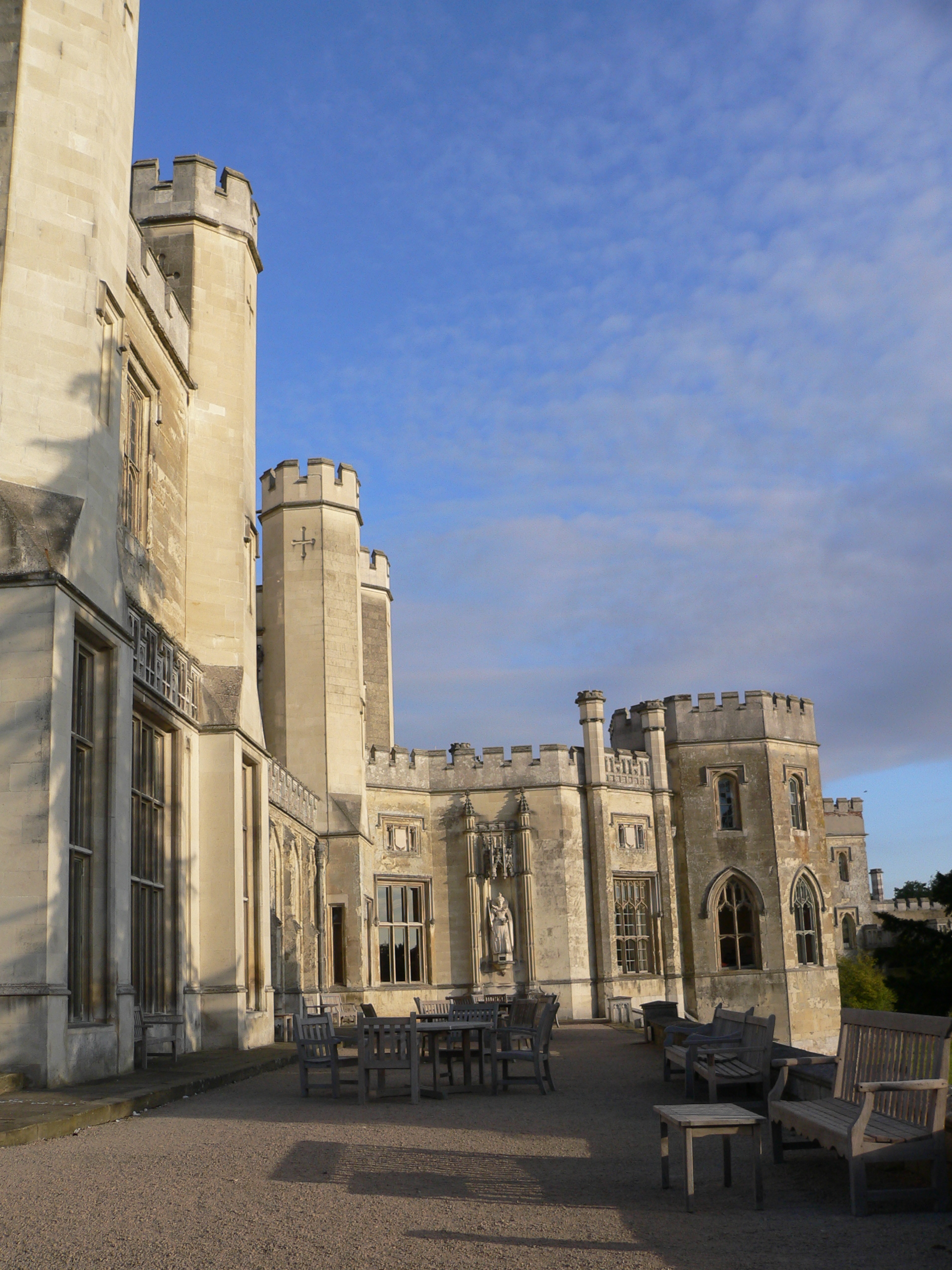 Ashridge Business School